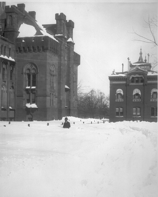 The "Knickerbocker" snowstorm dumps over two feet of snow on the City of Washington. Government employees are sent home, as the city is enveloped by the blizzard. All downtown businesses and buildings close, including the National Museum. In the evening, hundreds of people are trapped in the Knickerbocker Theater when the roof collapses due to the weight of the snow. Over 100 people are killed and many more injured. "Hundreds, Dead or Injured, Buried Under Ruins," reported the Washington Post on January 29, 1922, p. 1. [Location: south side of Smithsonian Castle, facing east.]